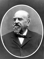 Alessandro D'Ancona